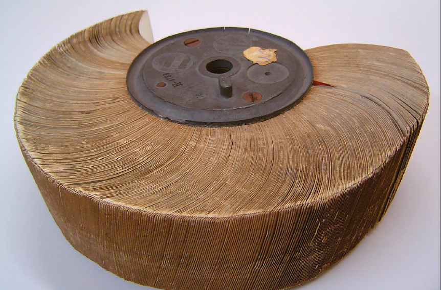 1901 mutoscope reel of brazilian inventor Santos Dumont presenting a project to an interlocutor.